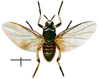 Adult of Simulium trifasciatum